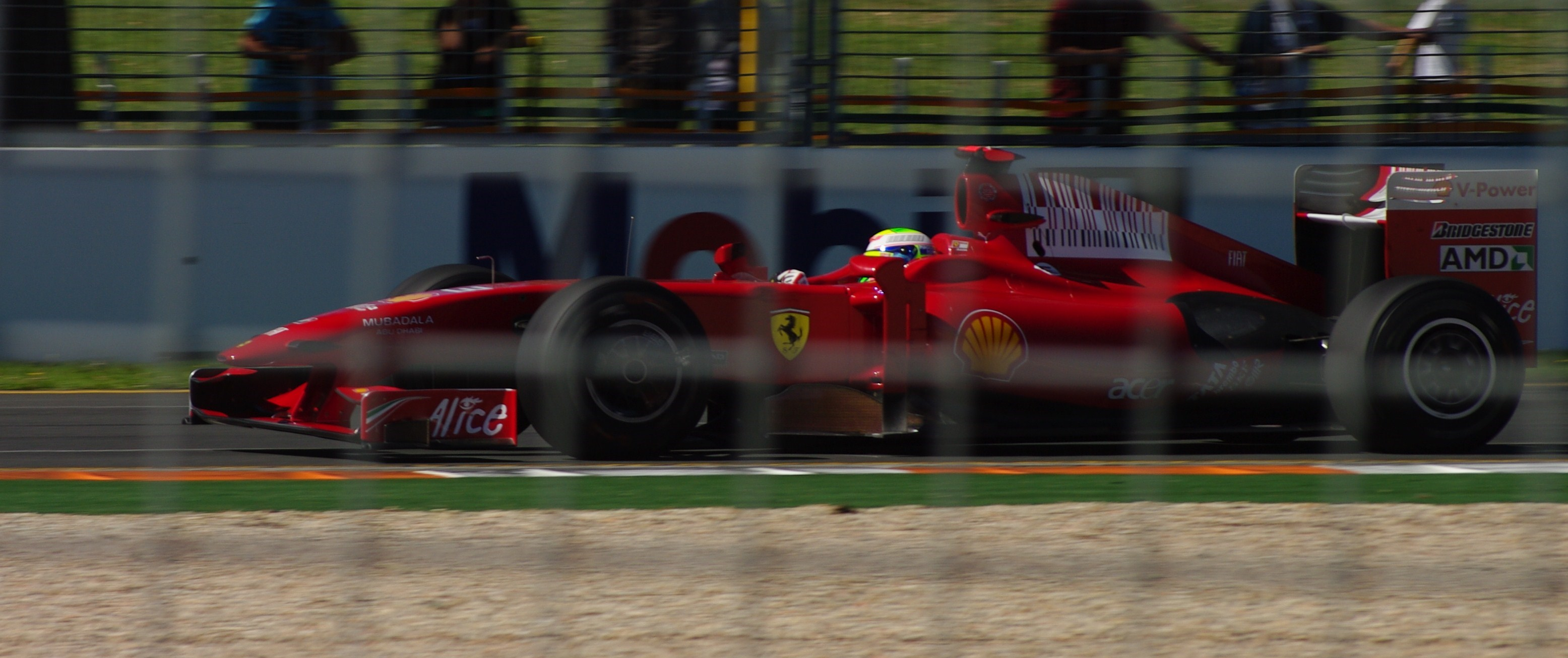 Felipe Massa at 2009 Australian Grand Prix, Melbourne, Australia